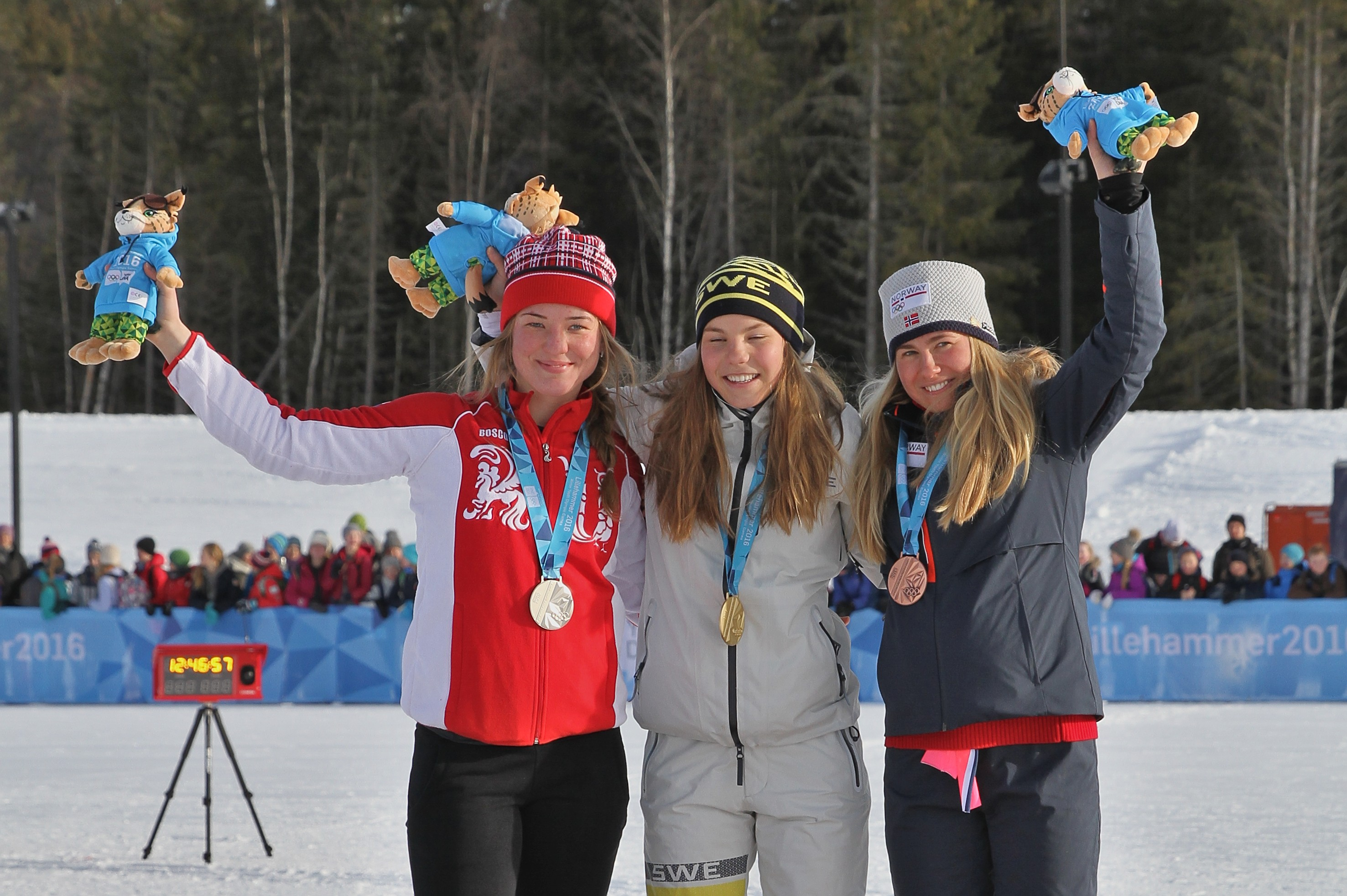 Lillehammer 2016 Cross country sprint classic women medalists - Johanna Hagström (gold), Yuliya Petrova (silver) and Martine Engebretsen (bronze)